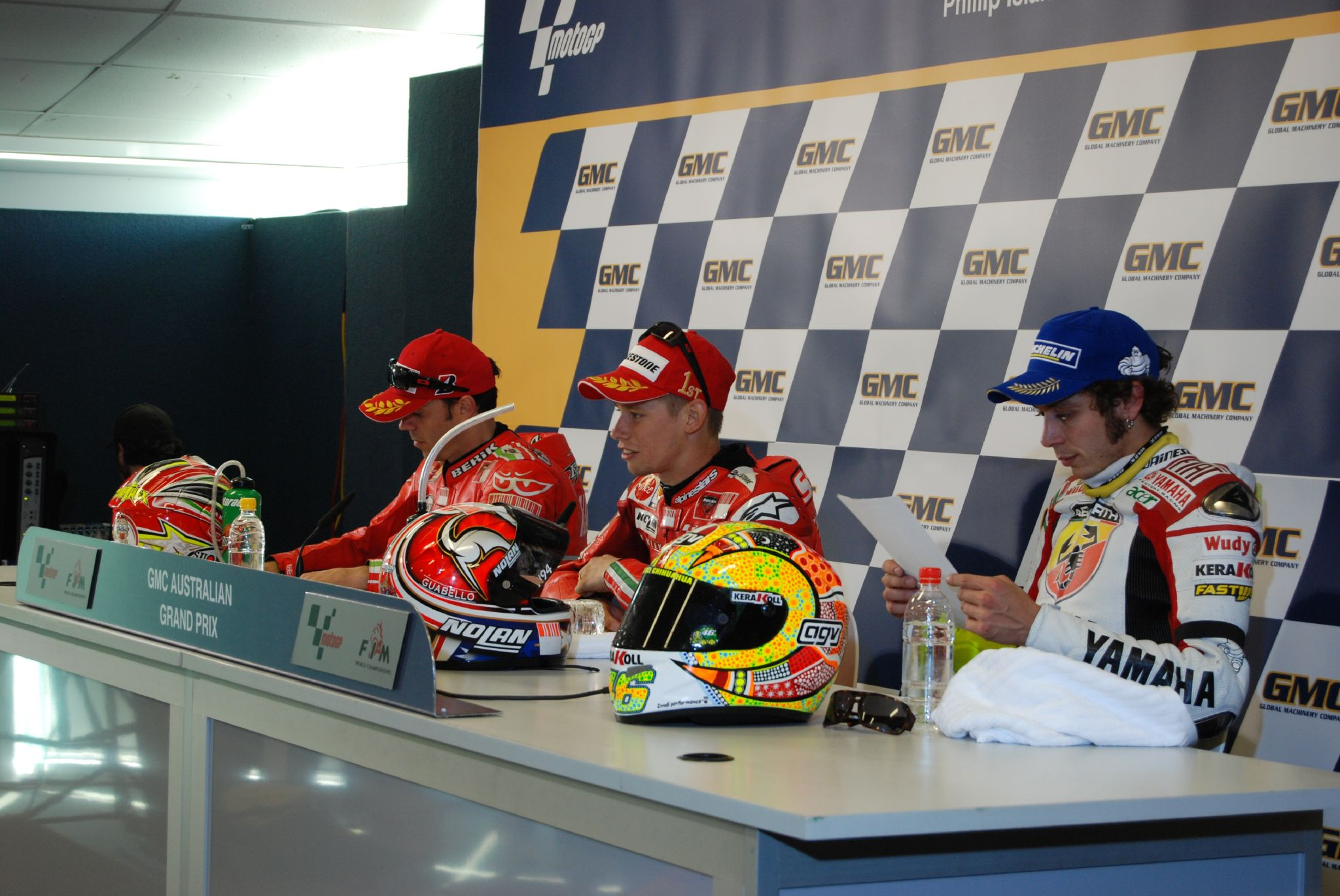 Valentino Rossi (r.), Casey Stoner (c.) and Loris Capirossi (l.) at the post race press conference, Phillip Island 2007